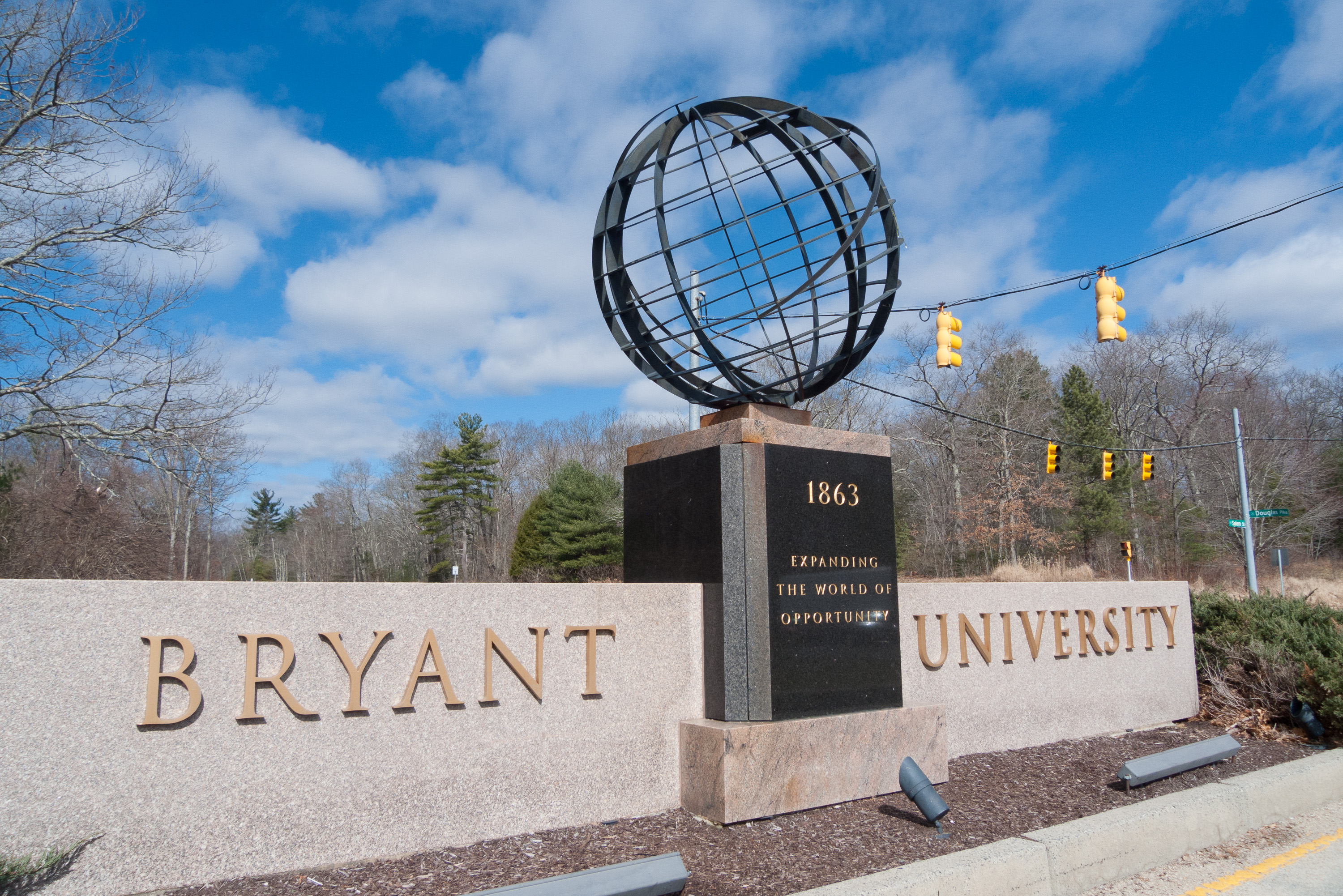 Bryant University, Smithfield, Rhode Island